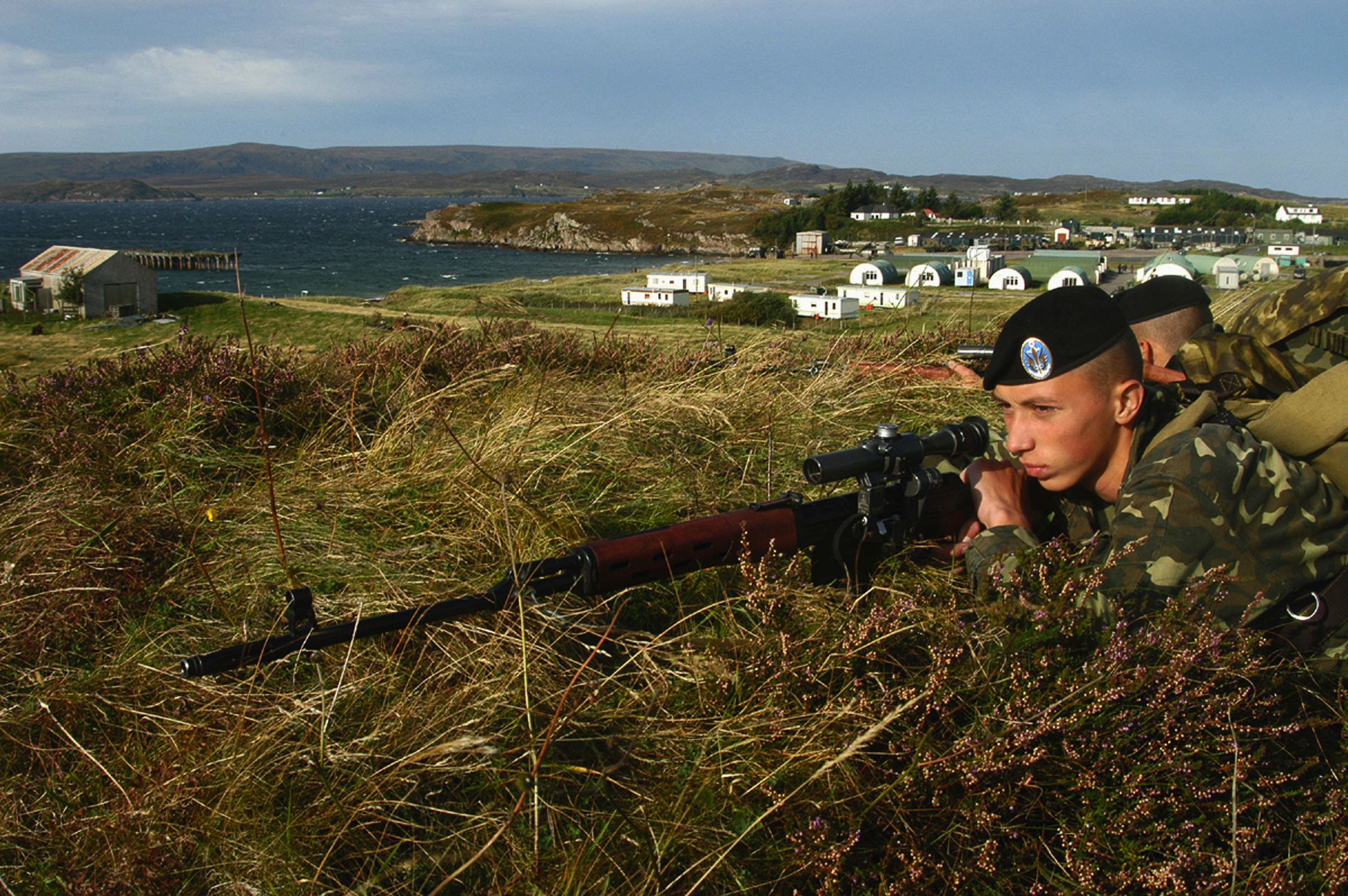 A Ukrainian Navy 1st Company Marine stands watch over the evacuation area during a Non-combatant Evacuation Operation (NEO) exercise held on the western coast of Scotland. The event is part of Exercise Northern Light 03, which includes military personnel from 12 NATO nations, and is held every four years.